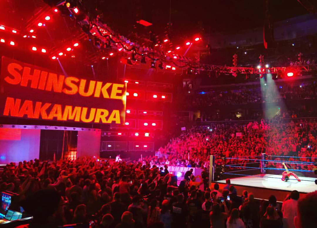 ShinsukeNakamura makes his debut on #WWE #Smackdown #SmackdownLive #SDLive. Awesome! ^_^ #Orlando #Florida